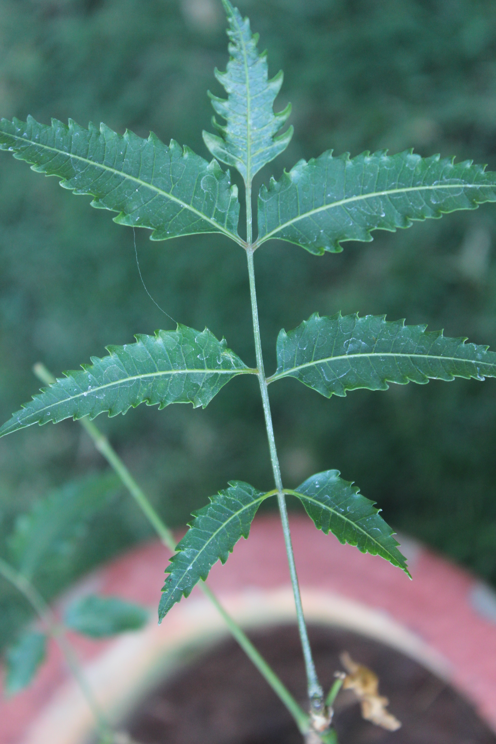 Bevu mara